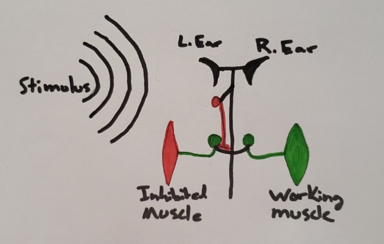 this shows the stimulus, the inhibited muscle, and the working muscle.